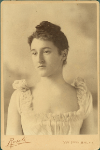 Bust portrait of Beatrix Jones Farrand, looking to her left, New York, N.Y., undated (ca.1890s-1910s) by Roseti (photographer)